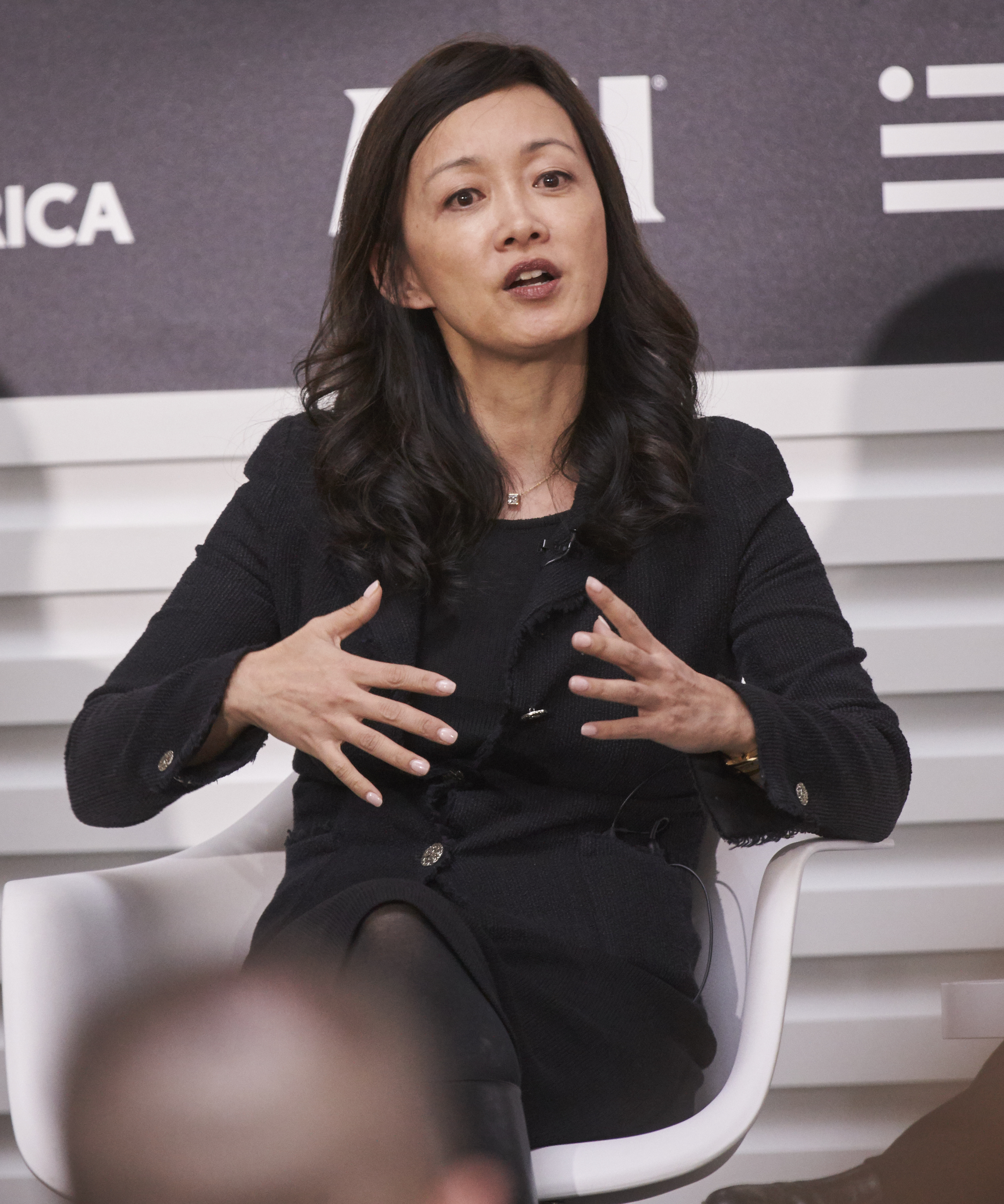 Sue Mi Terry speaking at New America's Future of War Conference in 2018